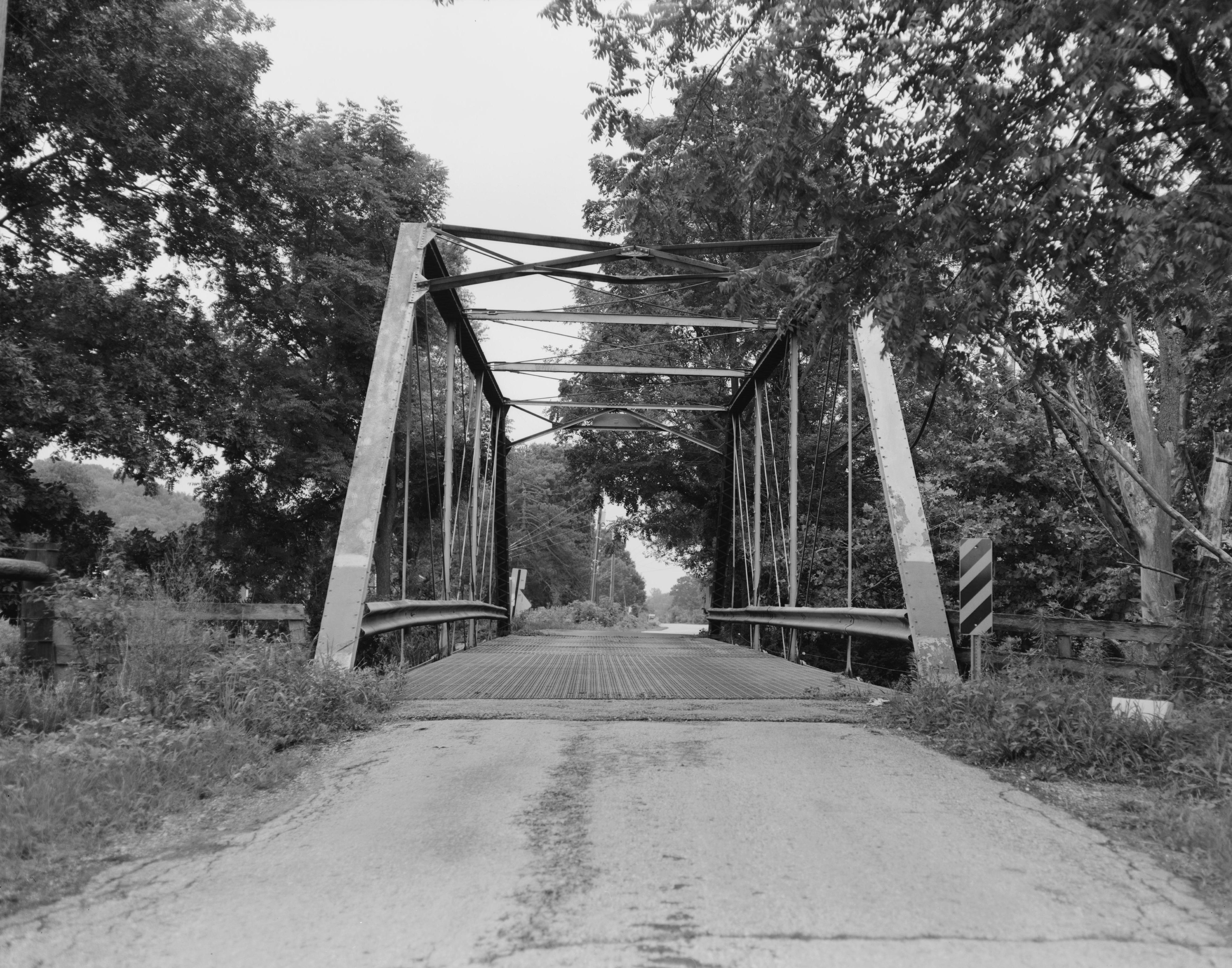 Western portal of the Lamb's Creek Bridge, which carries Old State Road 67 over Lamb's Creek near Martinsville in Morgan County, Indiana, United States. Built in 1893, the Pratt through truss bridge is listed on the National Register of Historic Places.